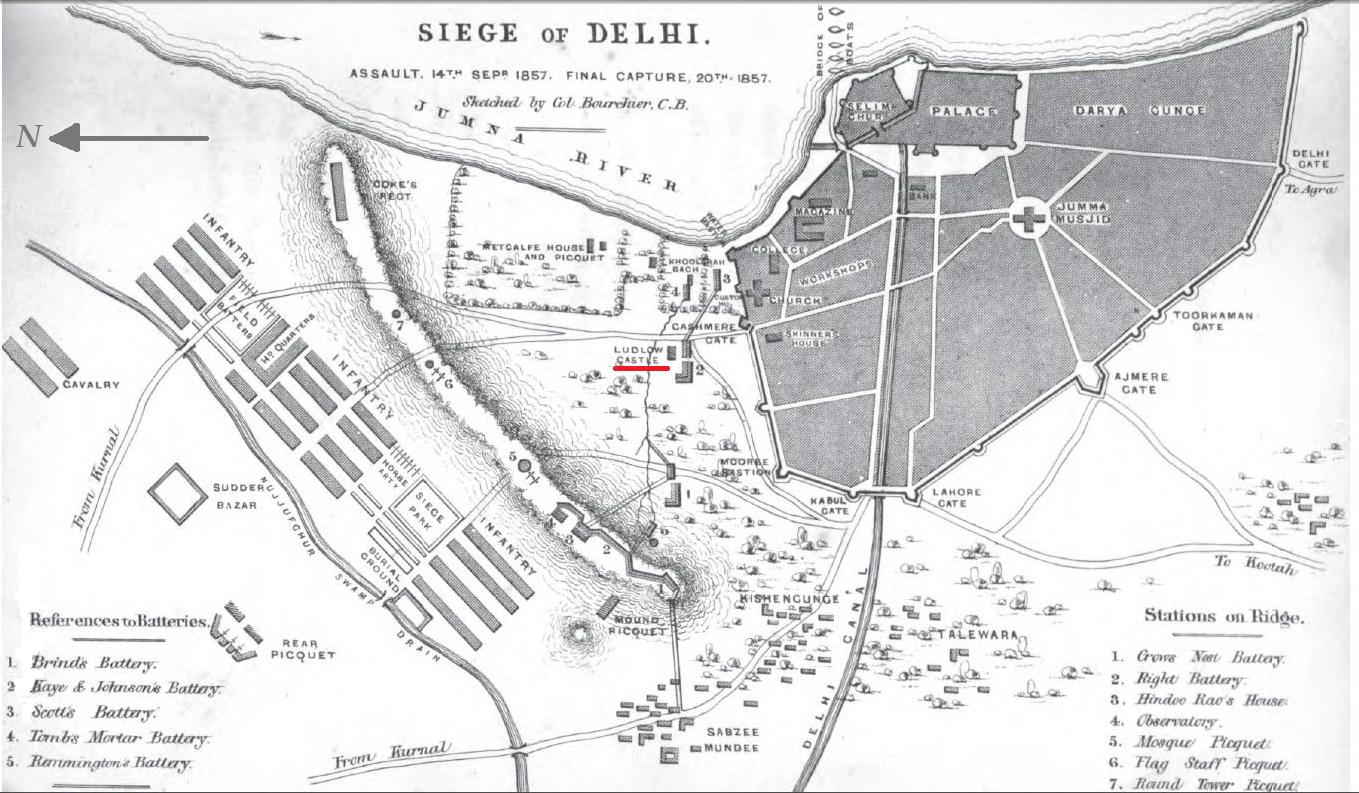 A map of the Siege of Delhi September 1857, showing the location of Battery number 2 at Ludlow Castle, Delhi, India . Uploaded by Fowler&fowler (talk) 00:50, 3 October 2011 (UTC)